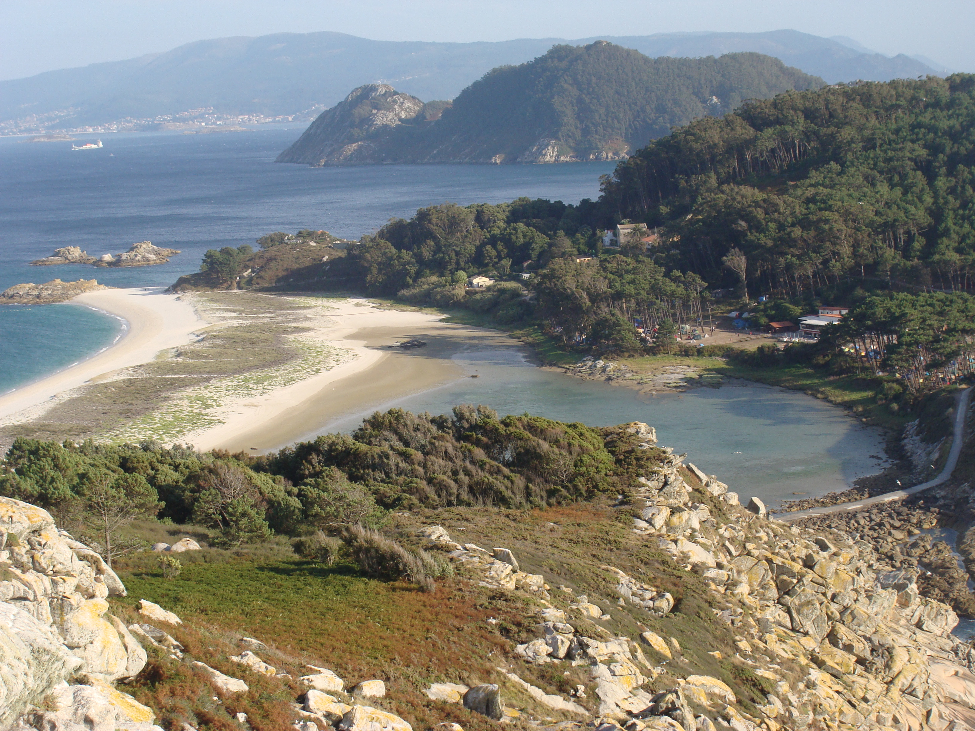 Lake in Cíes Islands, Pontevedra, Galicia, Spain.